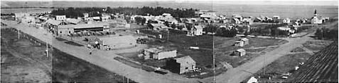 View of Eatonia, Saskatchewan.